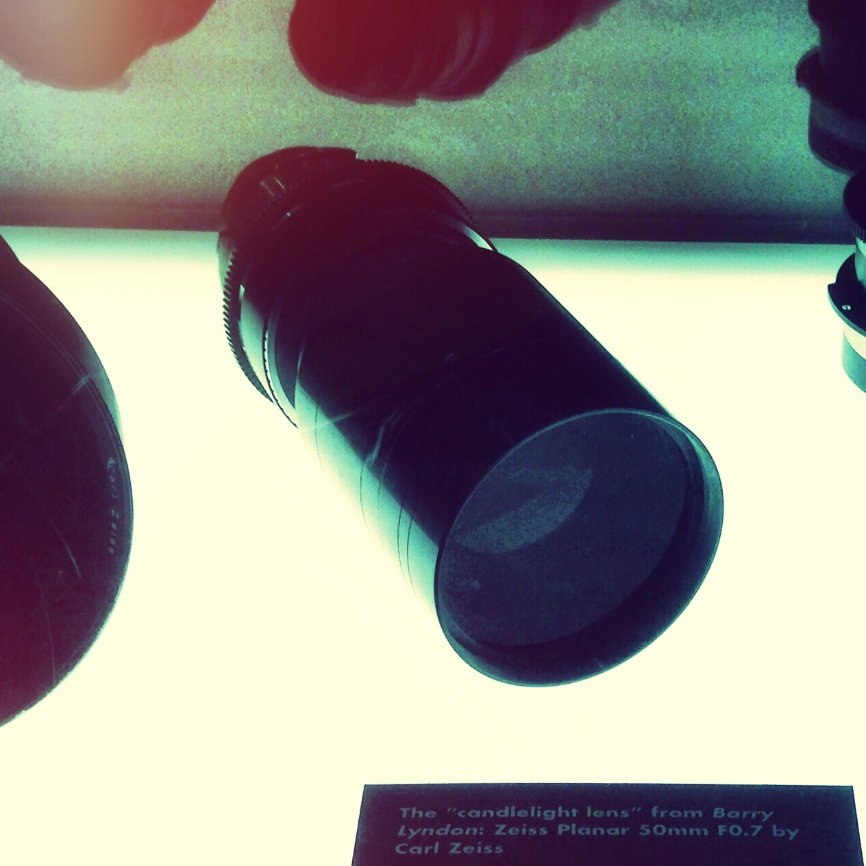 Zeiss 50mm f/0.7 as used by Stanley Kubrick